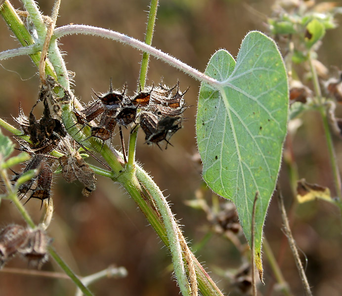 Pergularia daemia (Syn. P. extensa, Asclepias daemia, Cynanchum extensum, Daemia extensa, D. scandens)- Pergularia • Hindi: Utaran, Sagovani, Aakasan, Gadaria Ki bel, Jutak • Marathi: Utarn 'उतरण'• Tamil: Uttamani, Seendhal kodi • Malayalam: Veliparatti • Telugu: Dustapuchettu, Jittupaku • Kannada: Halokoratige, Juttuve, Talavaranaballi, Bileehatthi balli • Bengali: Chagalbati, Ajashringi • Oriya: Utrali • Sanskrit: Uttamarani, Kurutakah, Visanika, Kakajangha - in Hyderabad, India.